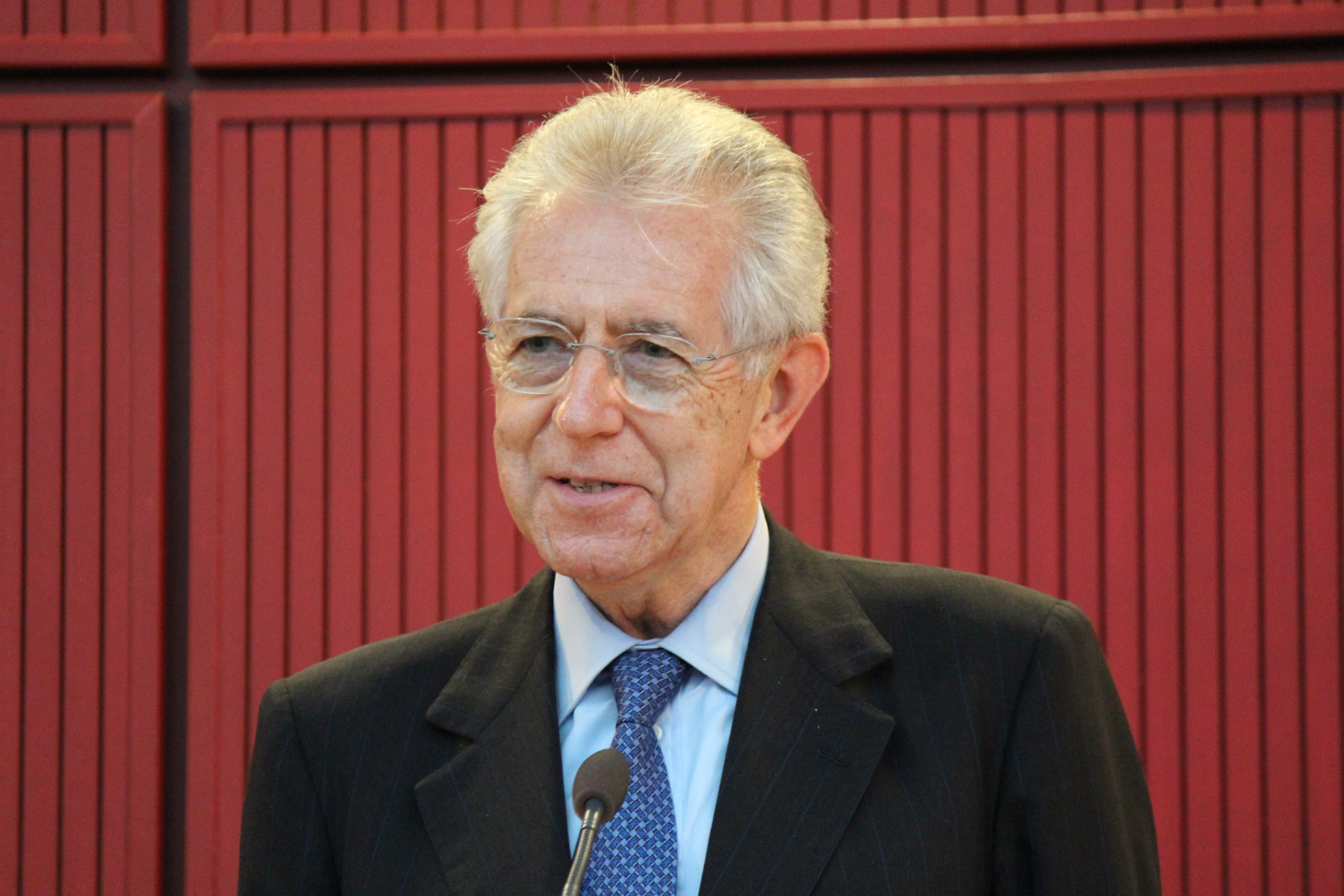 The Italian President of the Council (Prime Minister) Mario Monti at a ceremony organised by the Taxpayers Association of Europe, awarding him the European Taxpayers' Prize, in the representation of the Free State of Bavaria to the European Union in Brussels, on 27 June 2012.